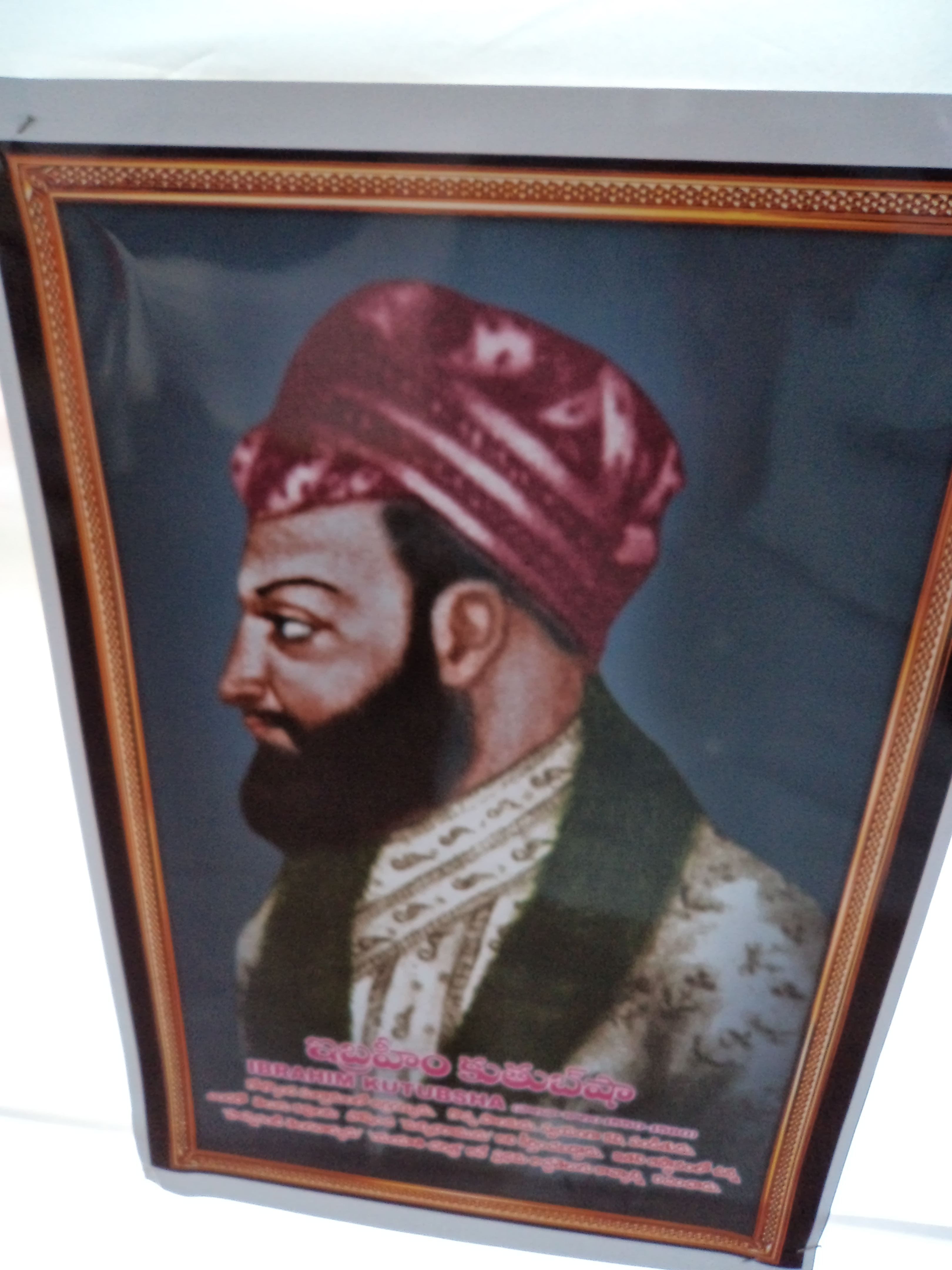 Portrait of Ibrahim Qutb Shah